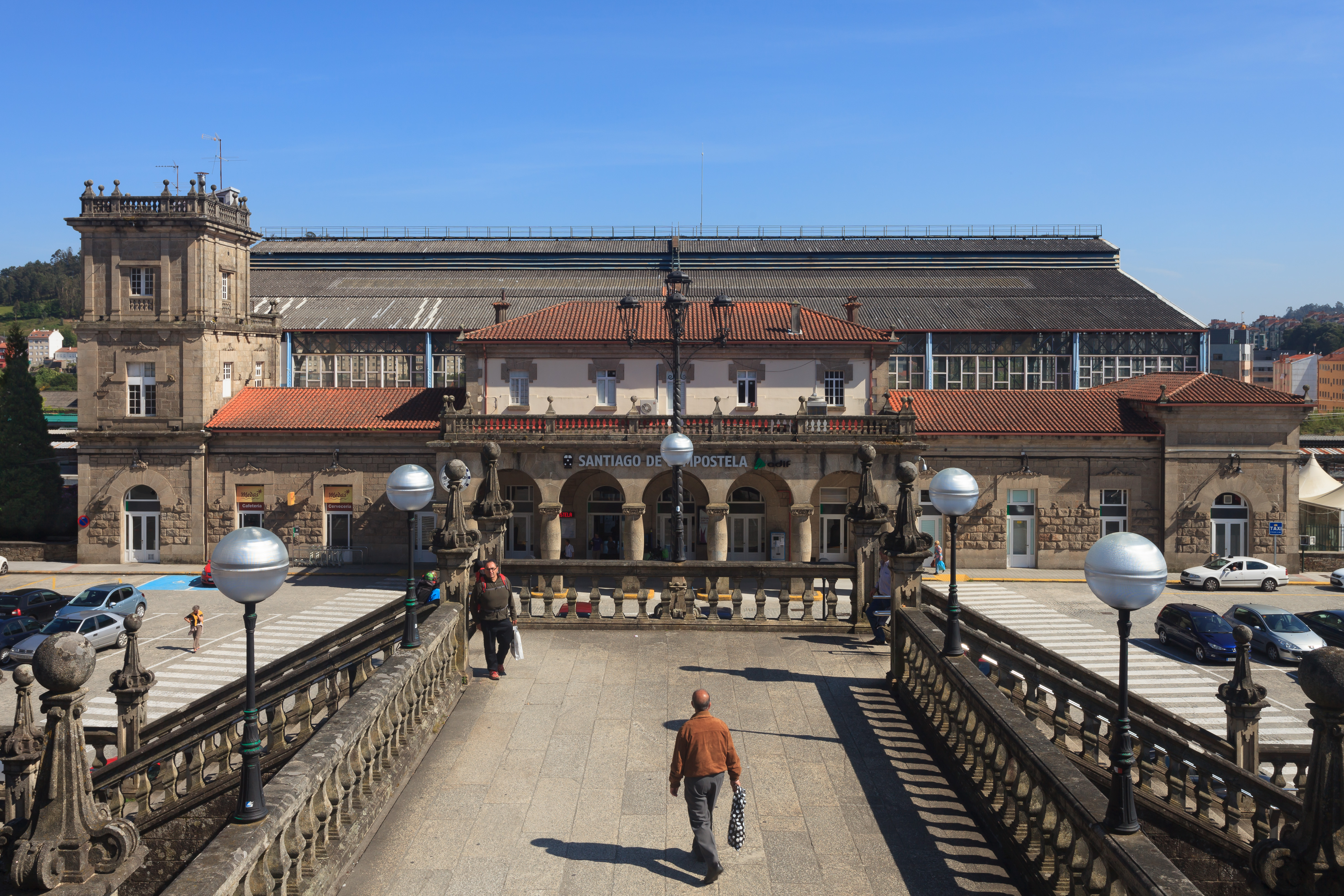 Train station, Santiago de Compostela. Galicia (Spain)